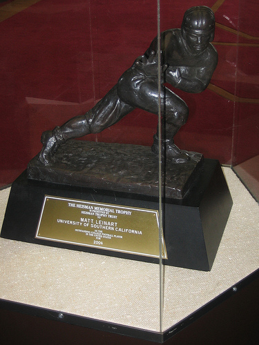 Matt Leinart's Heisman Trophy. I took this picture while at the USC Campus.